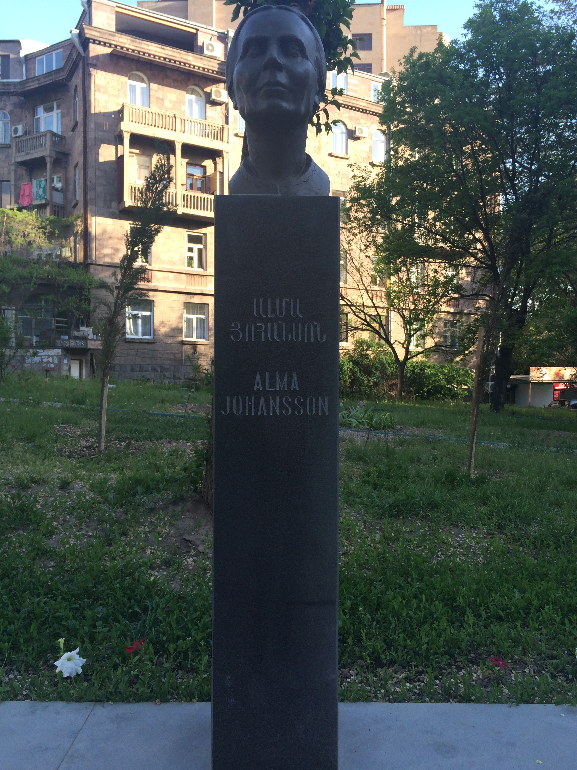 A bust of Alma Johansson in Alley Gratitude, Yerevan